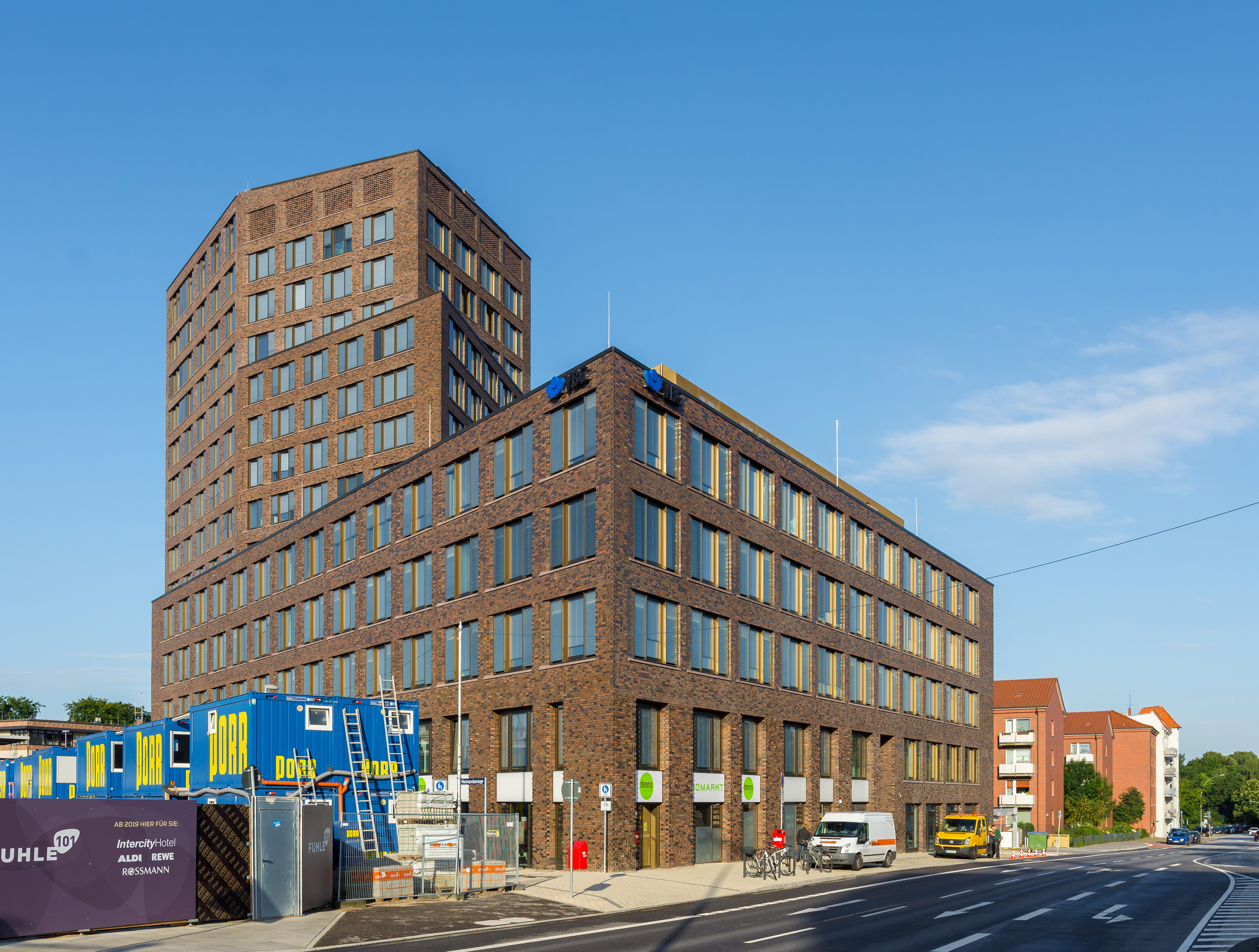 Brick office building in the Barmbek-Nord quarter of Hamburg, Germany, right next to Barmbek railroad station (not visible in the picture). This building was completed in 2016 as part of a larger renewal of the station and its surroundings, and the main tenant since January 2017 has been the Verwaltungs-Berufsgenossenschaft (VBG), an insurance company that is part of the statutory work accident insurance system in Germany. The building was designed by APB Architekten, an architecture firm from Hamburg.